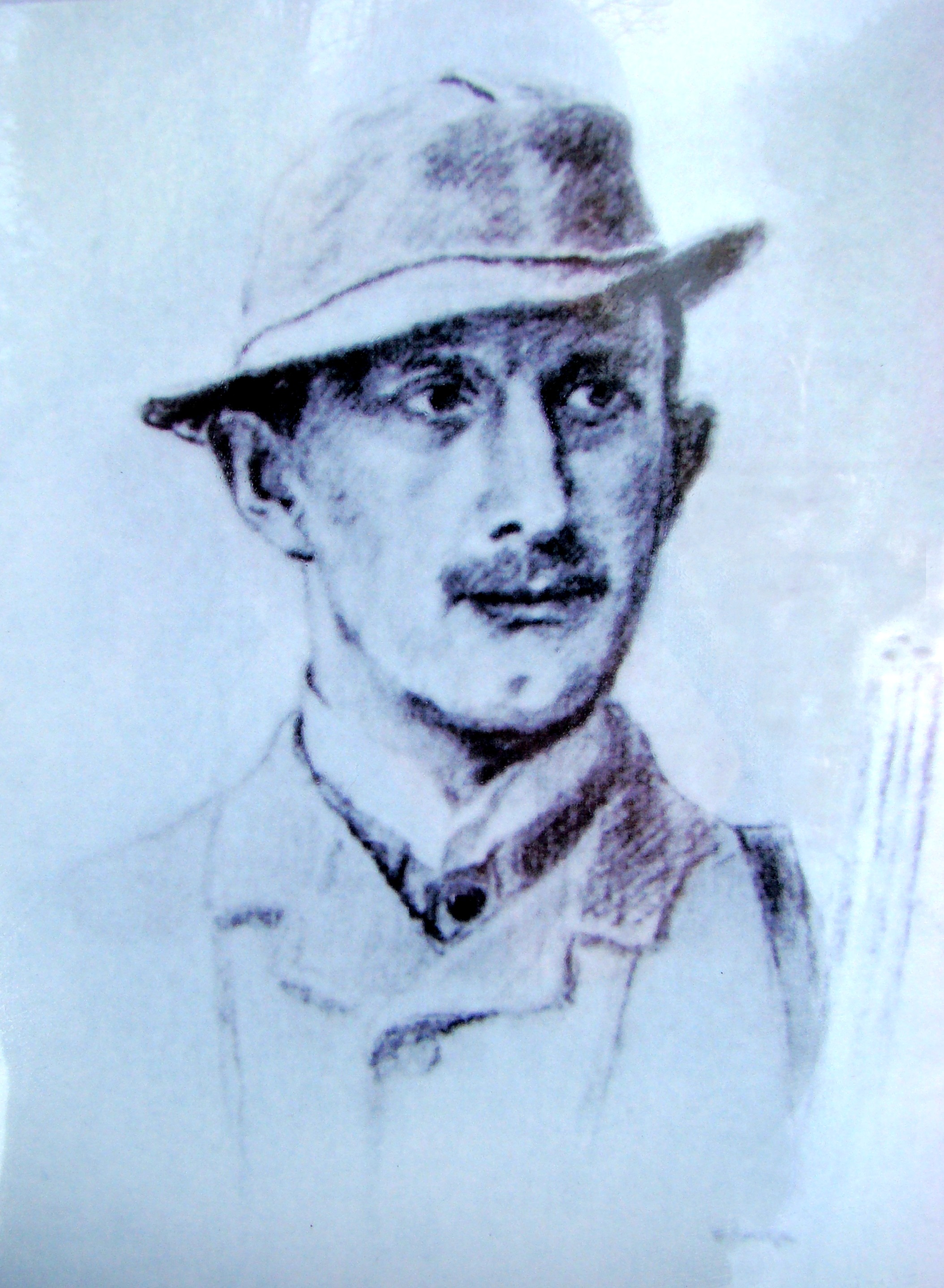 Photograph of Hermann Löns on the publicly displayed information board at the Löns monument in Müden (Örtze), Lower Saxony, Germany